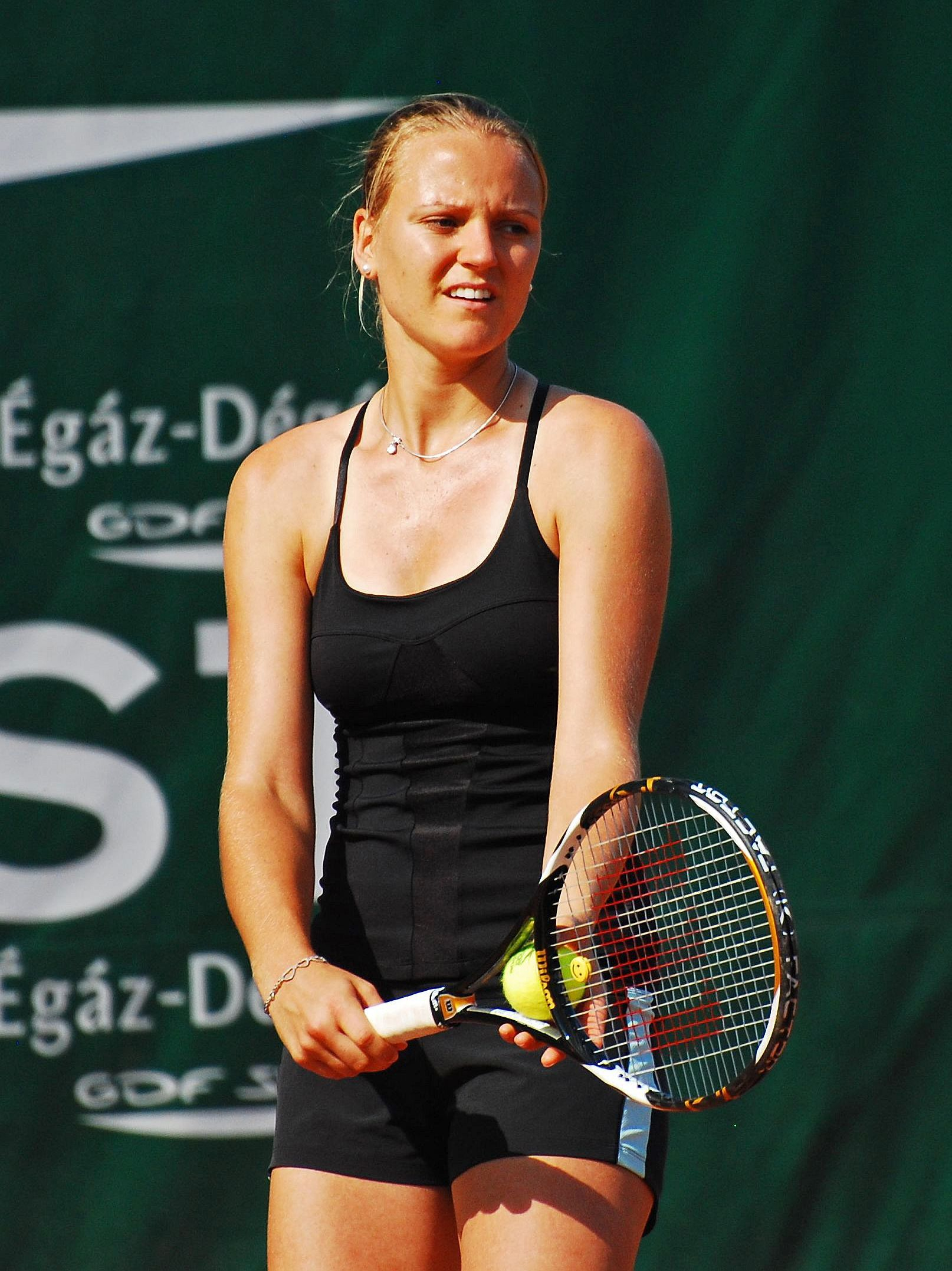 Ágnes Szávay 2009 Budapest, training